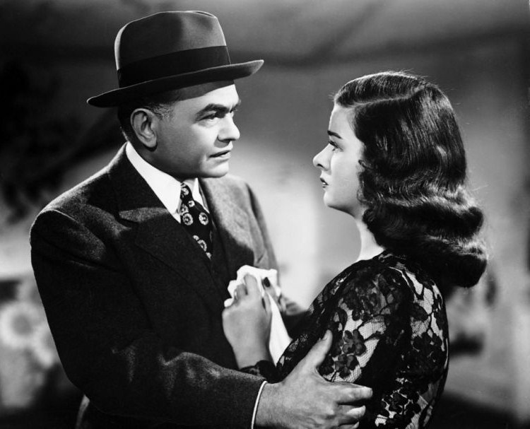 Edward G. Robinson & Joan Bennett in Scarlet Street - cropped screenshot